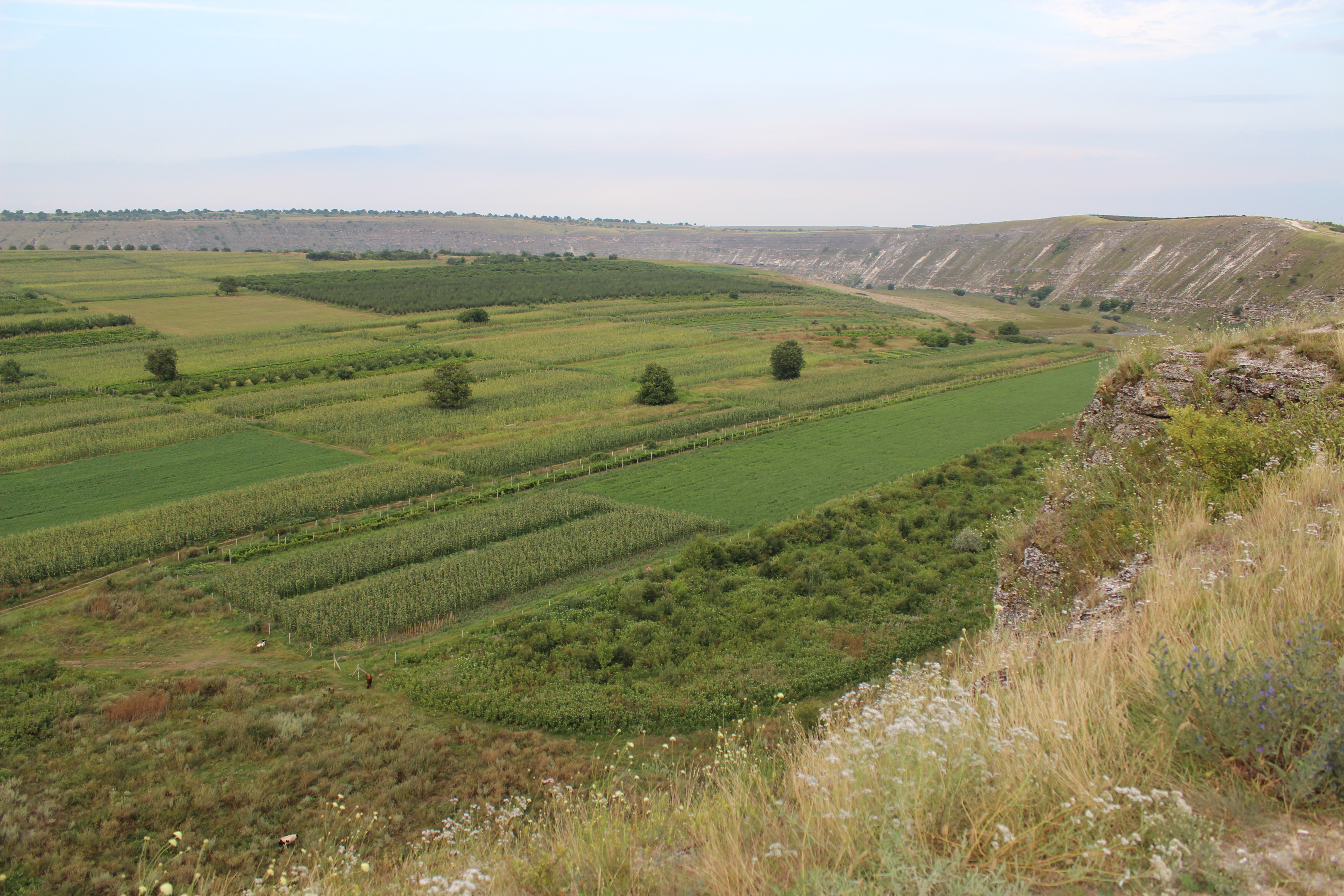 Croplands near Orhei, Romania